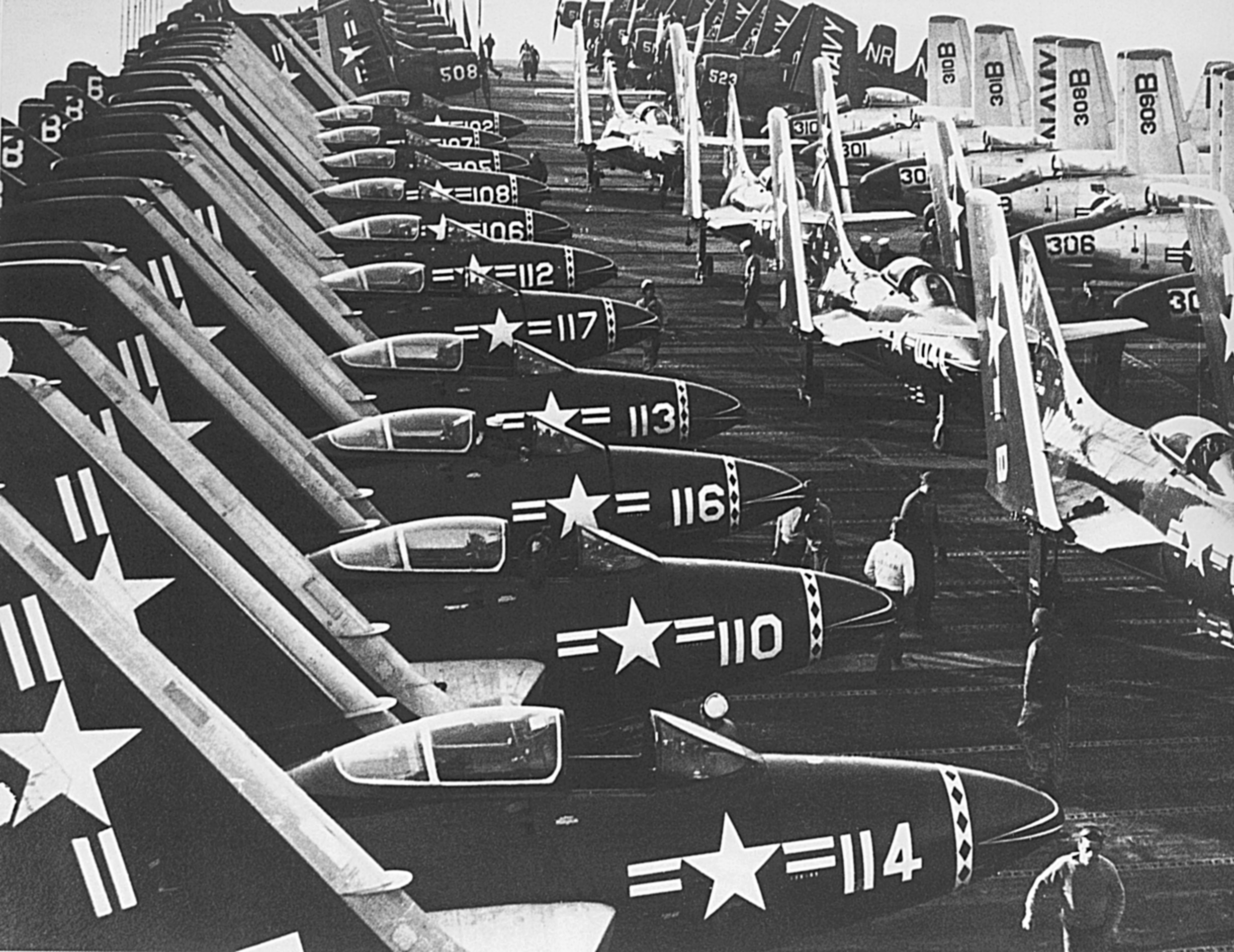 Planes of Carrier Air Group Nineteen (CVG-19) aboard the carrier USS Oriskany (CVA-34) sometime between 1953 and 1955. The planes in the left foreground are Grumman F9F-6 Cougar fighters of fighter squadron VF-191 Satan's Kittens. To the right silver McDonnell F2H-3 Banshee fighters of VF-193 Ghost Riders are visible. In the background Douglas AD Skyraider attack planes are parked: AD-4E or AD-4NA of attack squadron VA-195 Dambusters on the left (tailcode "B"), and AD-4N night attack planes of composite squadron VC-35 Det. E on the right (tailcode "NR").[1]